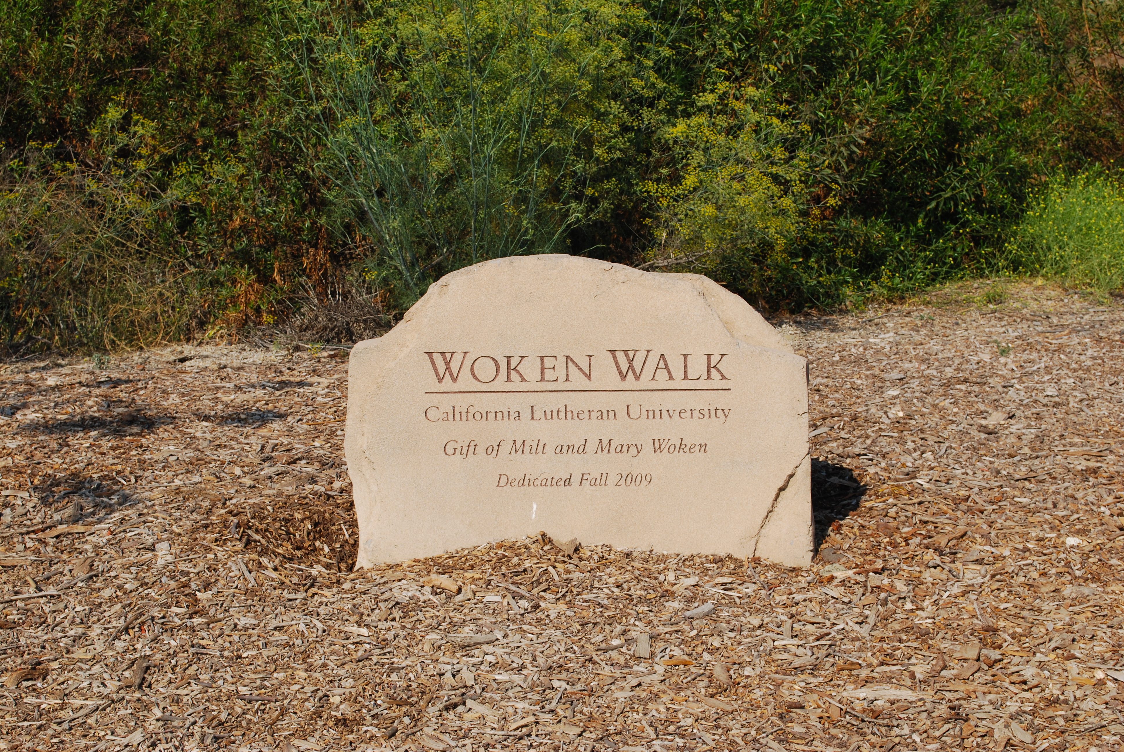 Sign by Woken Walk on the campus of California Lutheran University (CLU).